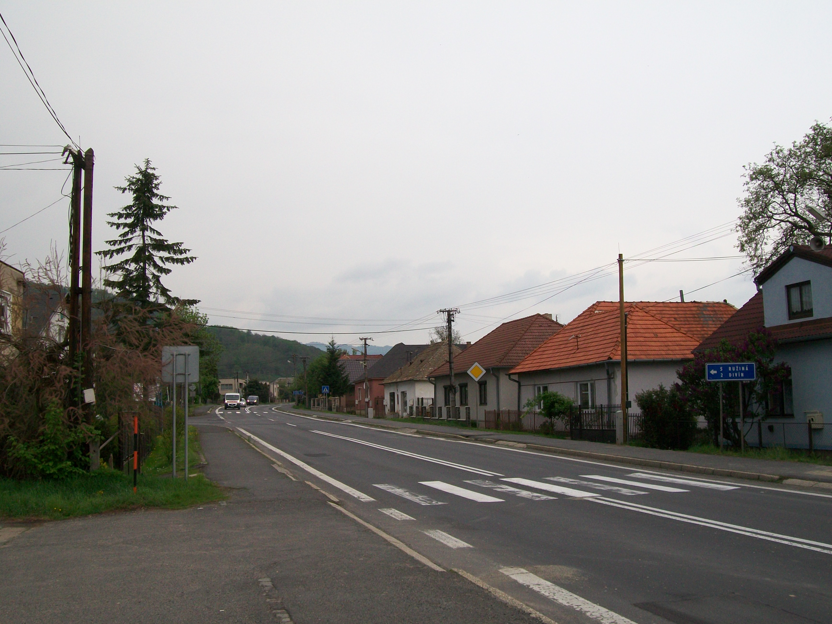 Zvolen street in the village Mýtna (Lučenec District)